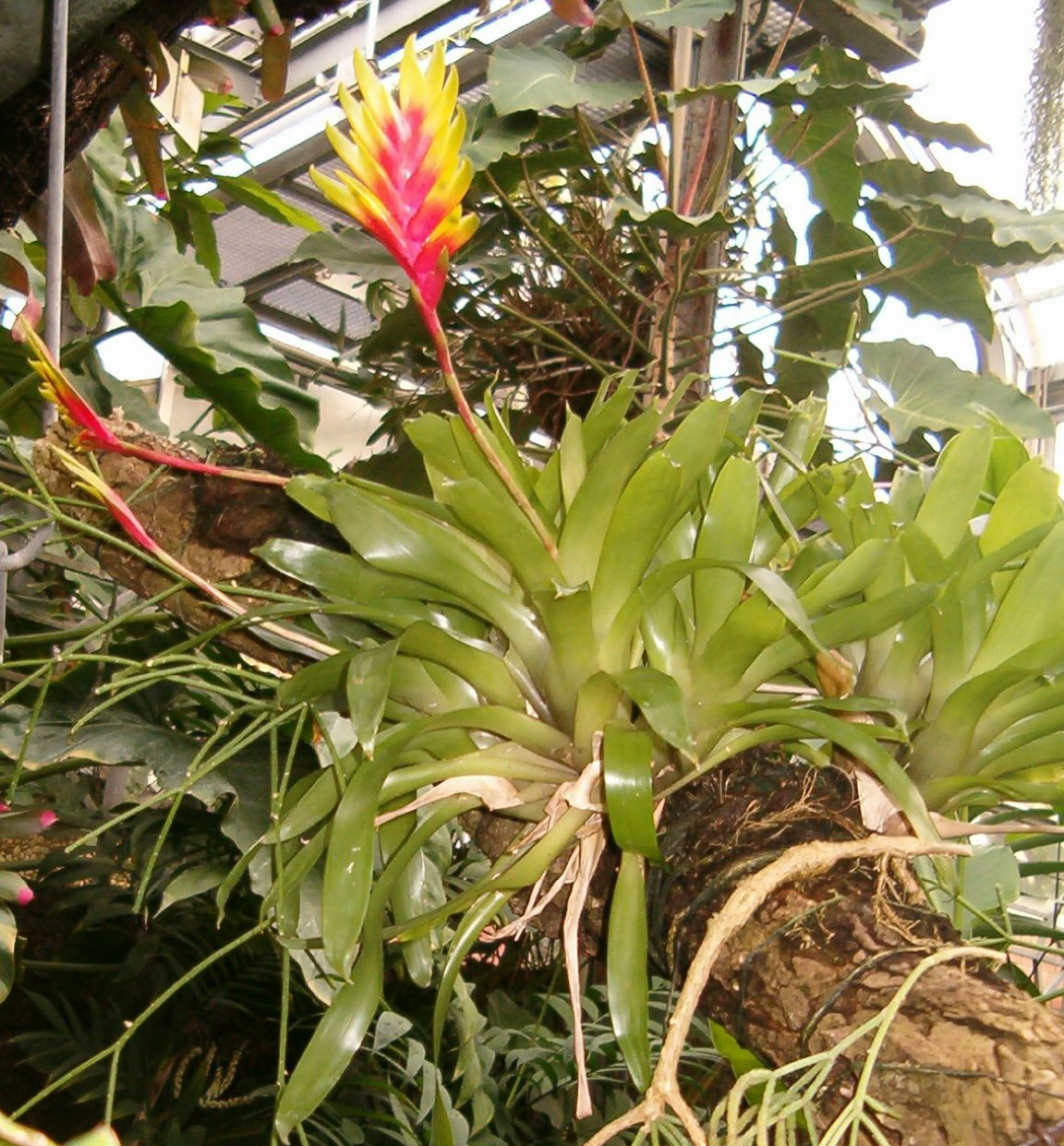 Location: Botanical Gardens Berlin Dahlem Habitus and Inflorescence